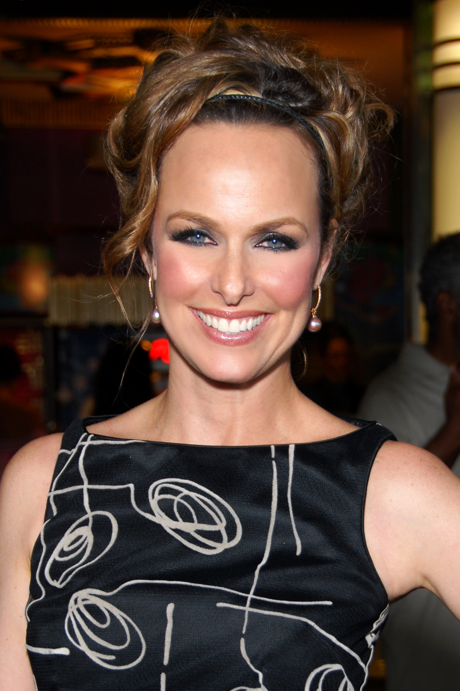 Melora Hardin attending the premiere of her movie "YOU", Westwood, CA on May 13, 2009 - Photo by Glenn Francis of